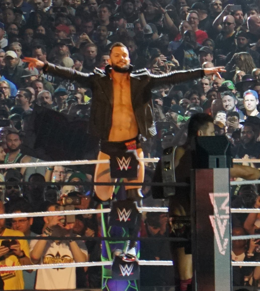 Finn Balor prior to his match at WrestleMania 34.